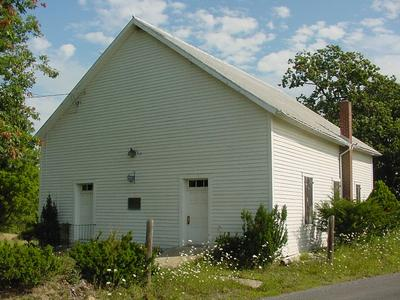 Mount Bethel Church viewed from Three Churches Hollow Road (CR 5/4) in Three Churches.